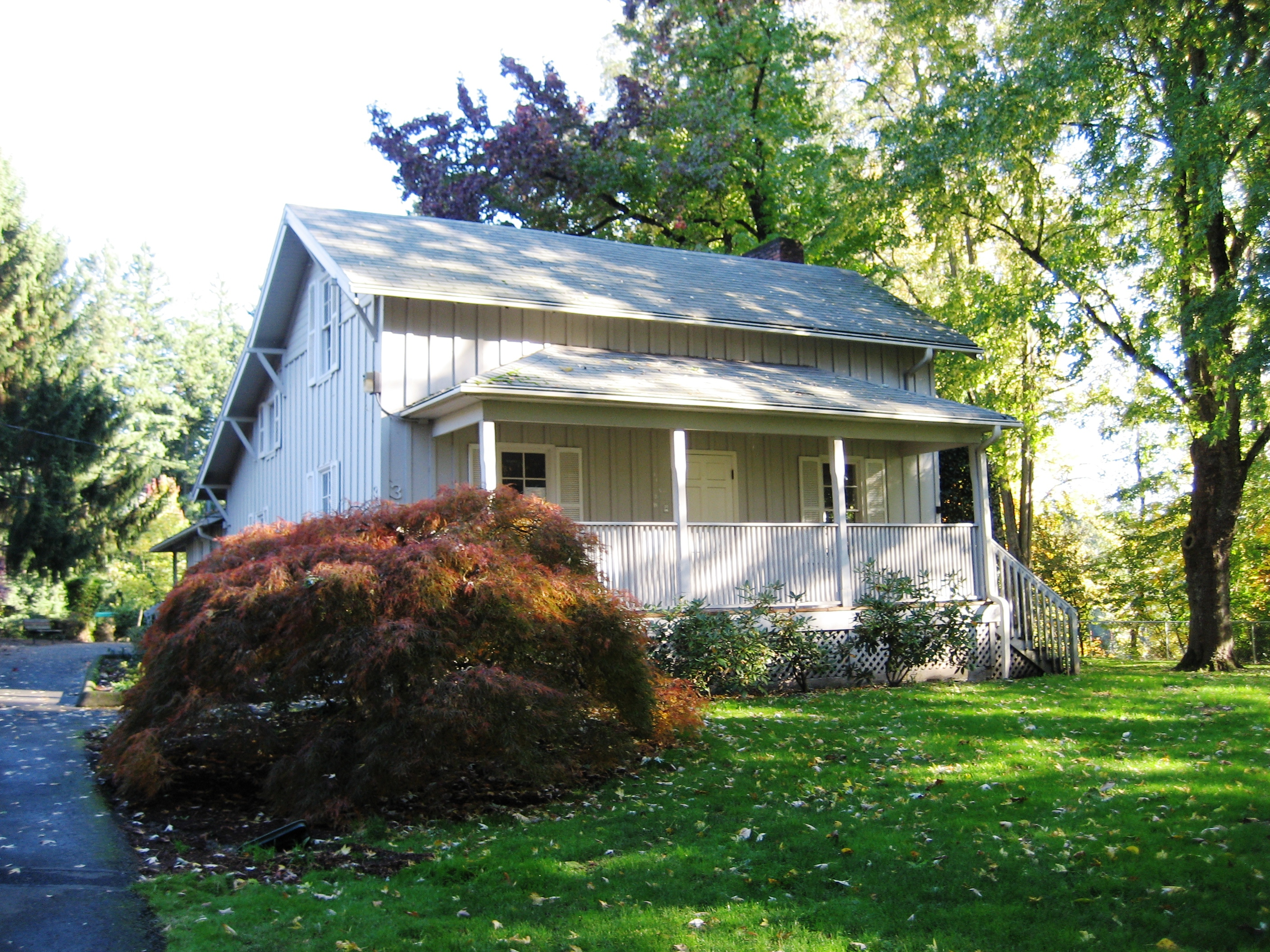 Tauchman House in Boones Ferry Park in Wilsonville, Oregon. Used as city's first city hall.